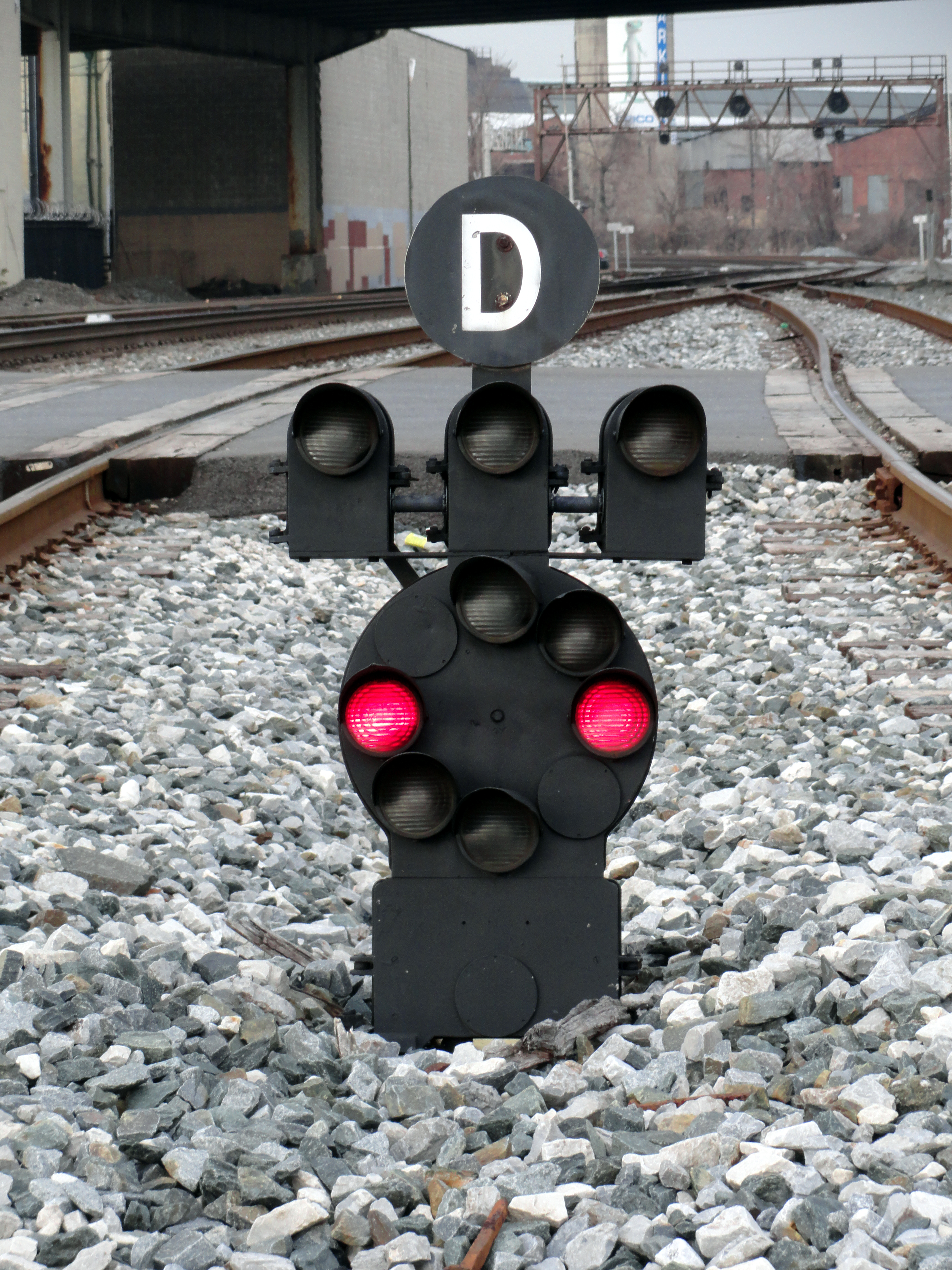 Dwarf color position light (CPL) signal on CSX Baltimore Terminal Subdivision main line, at Baileys wye looking southbound. Signal manufactured by General Railway Signal Co..